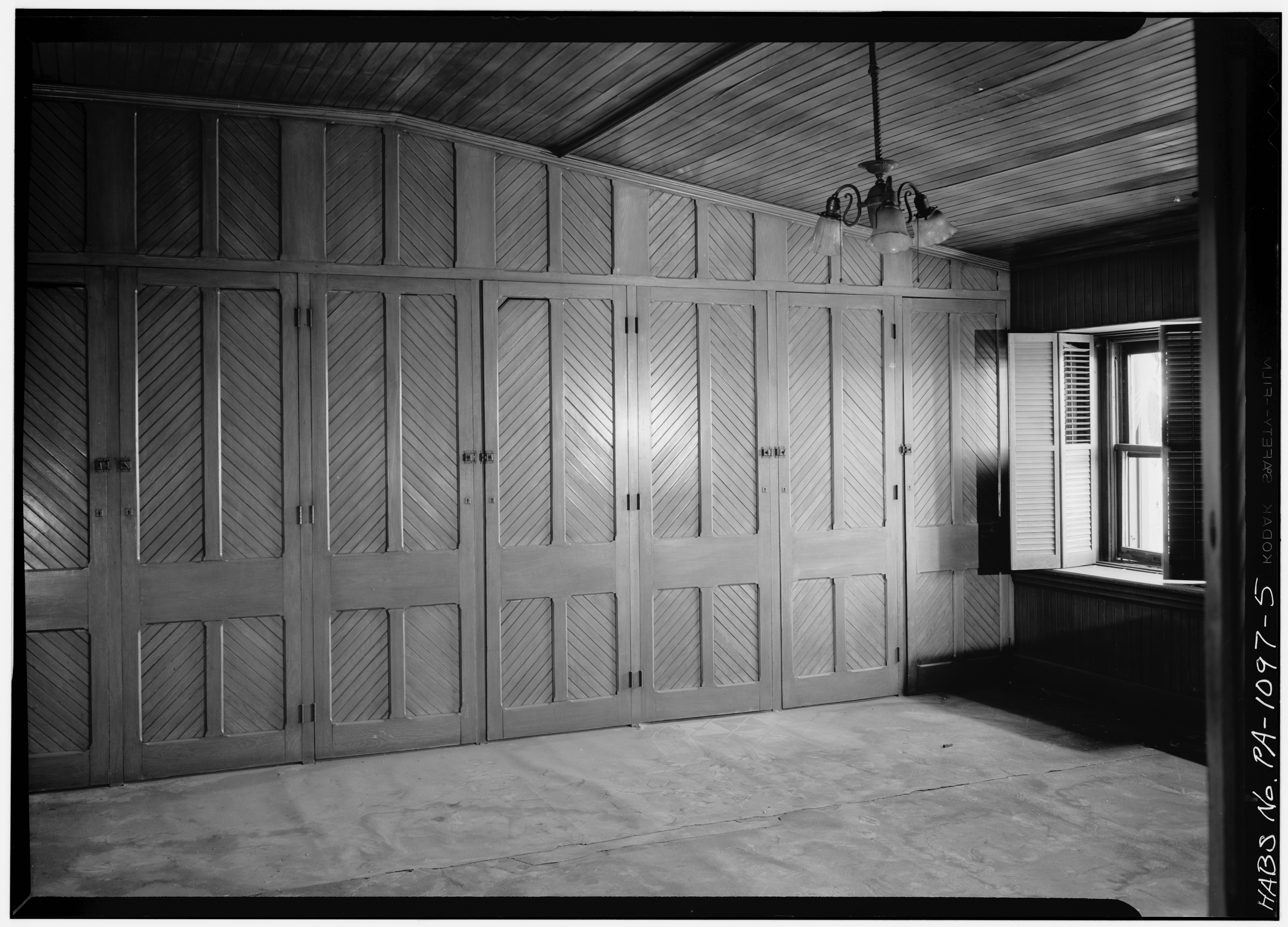 Philadelphia County Prison (Moyamensing Prison) Philadelphia PA. Southwest Room, Third Floor. From LOC Historic American Buildings Survey (HABS) PA-1097, Control Number: pa1056. Jack E. Boucher, photographer (July 1965).